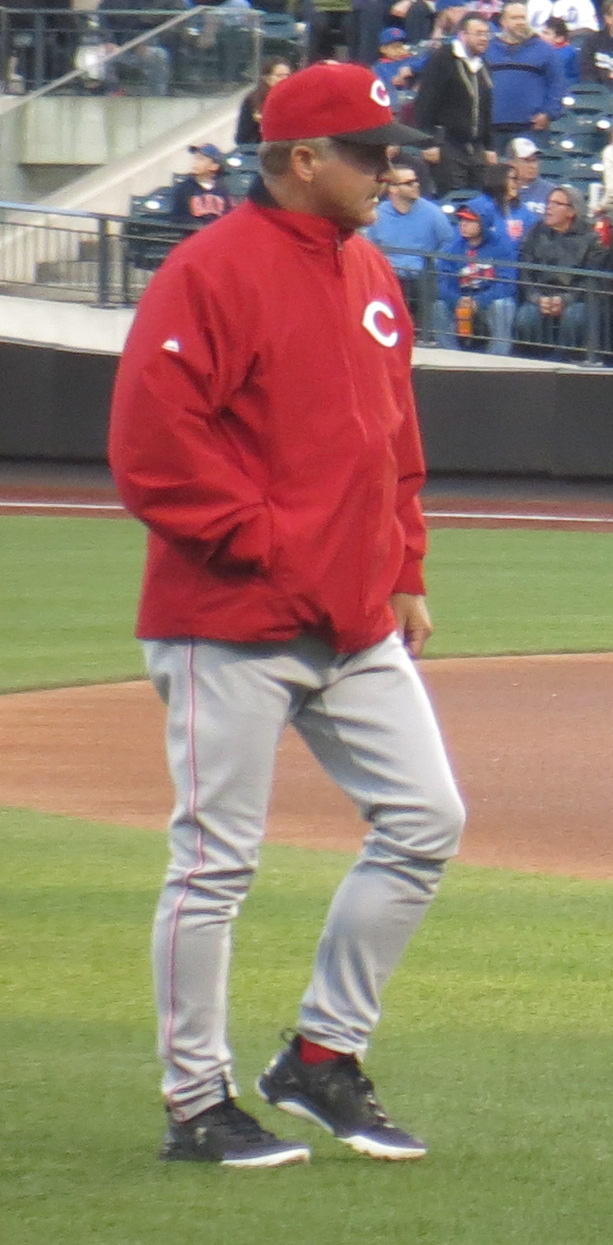 Mark Riggins with the Cincinnati Reds, April 27, 2016.